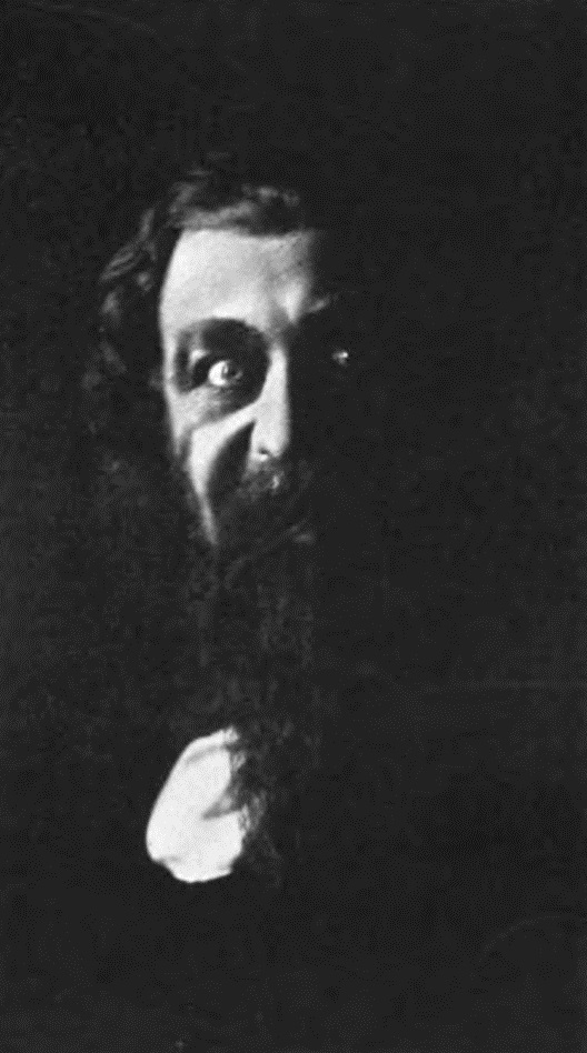 "Mr. Wilton Lackaye as Svengali"